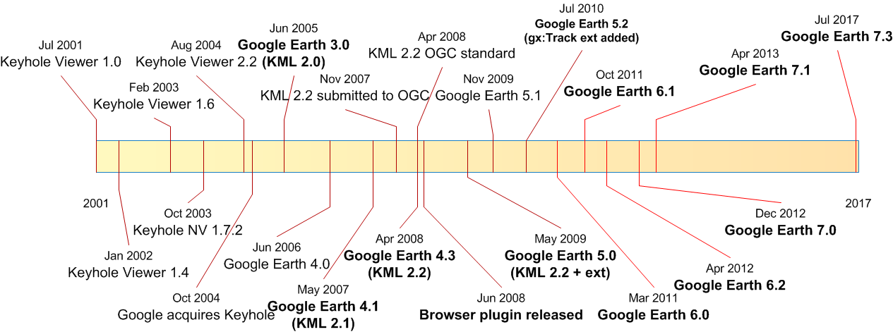 History timeline of Google Earth and KML